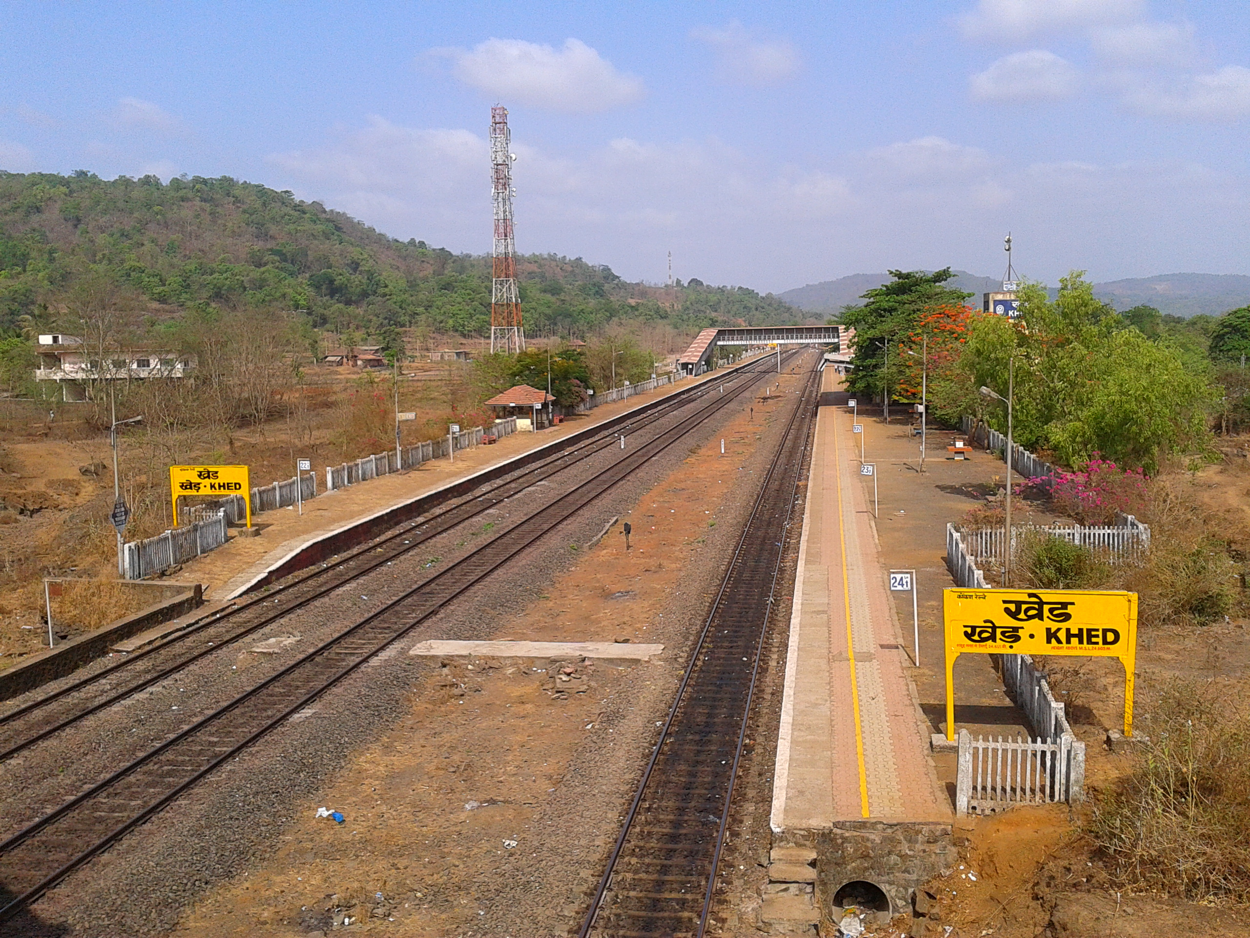 View of the Eastern end of Khed's two railway platforms on the Konkan Railway Line in Maharashtra, India.